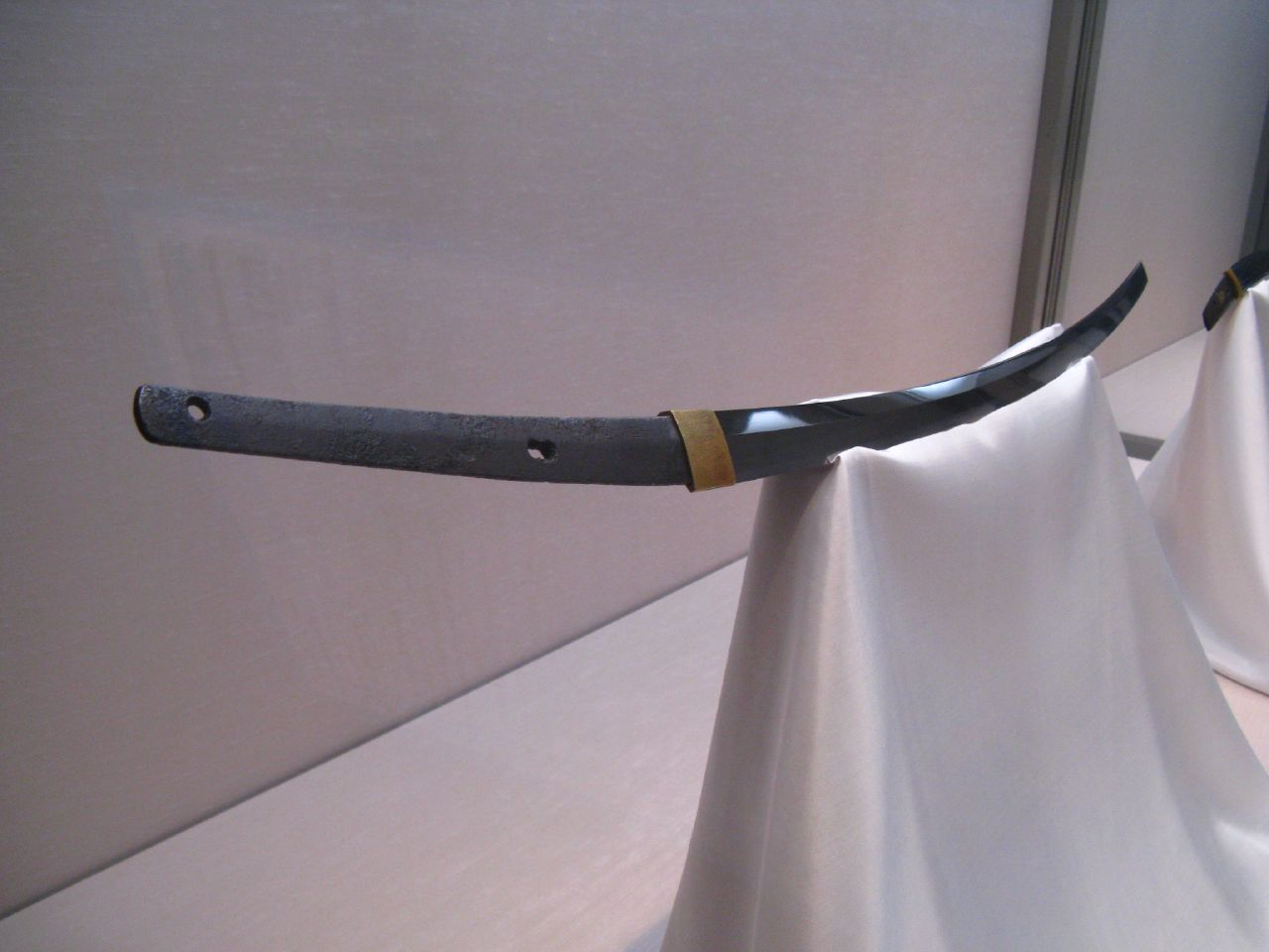 Tachi signed "Made by Tomonari from Bizen Province" (太刀 銘備前国友成造, Tachi mei bizen no kuni tomonari tsuku). Heian period, 11th century, located at Tokyo National Museum